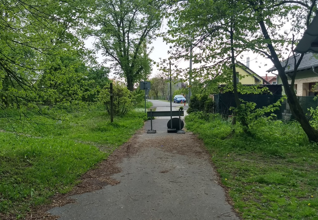 Wymysłów-Mizerov border crossing during COVID-19 pandemic.